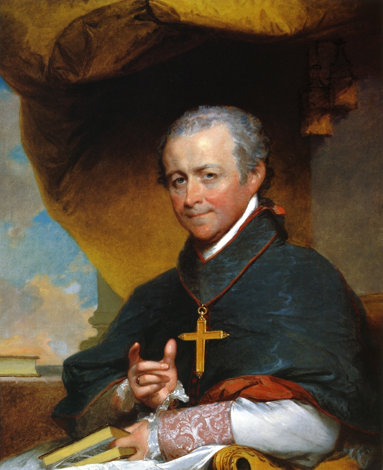 "Bishop Jean-Louis Anne Magdelaine Lefebvre de Cheverus"